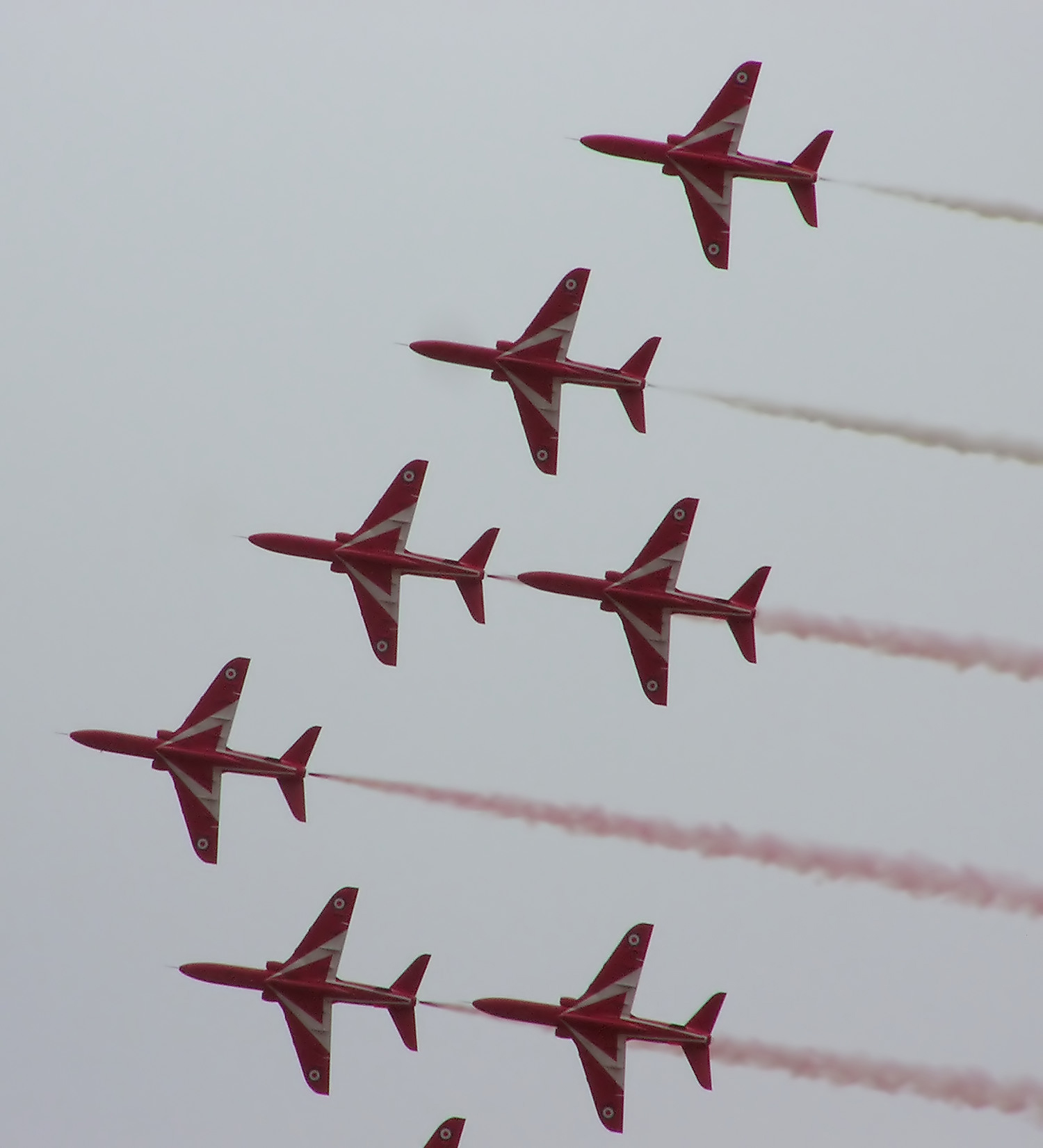 Part of a Red Arrows formation at Kemble Airshow, Kemble, Gloucestershire, England. Taken by Adrian Pingstone in June 2004 and released to the public domain.